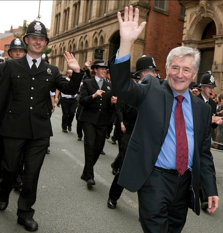 Greater Manchester Police and Crime Commissioner Tony Lloyd participates in the 2013 Manchester Pride parade